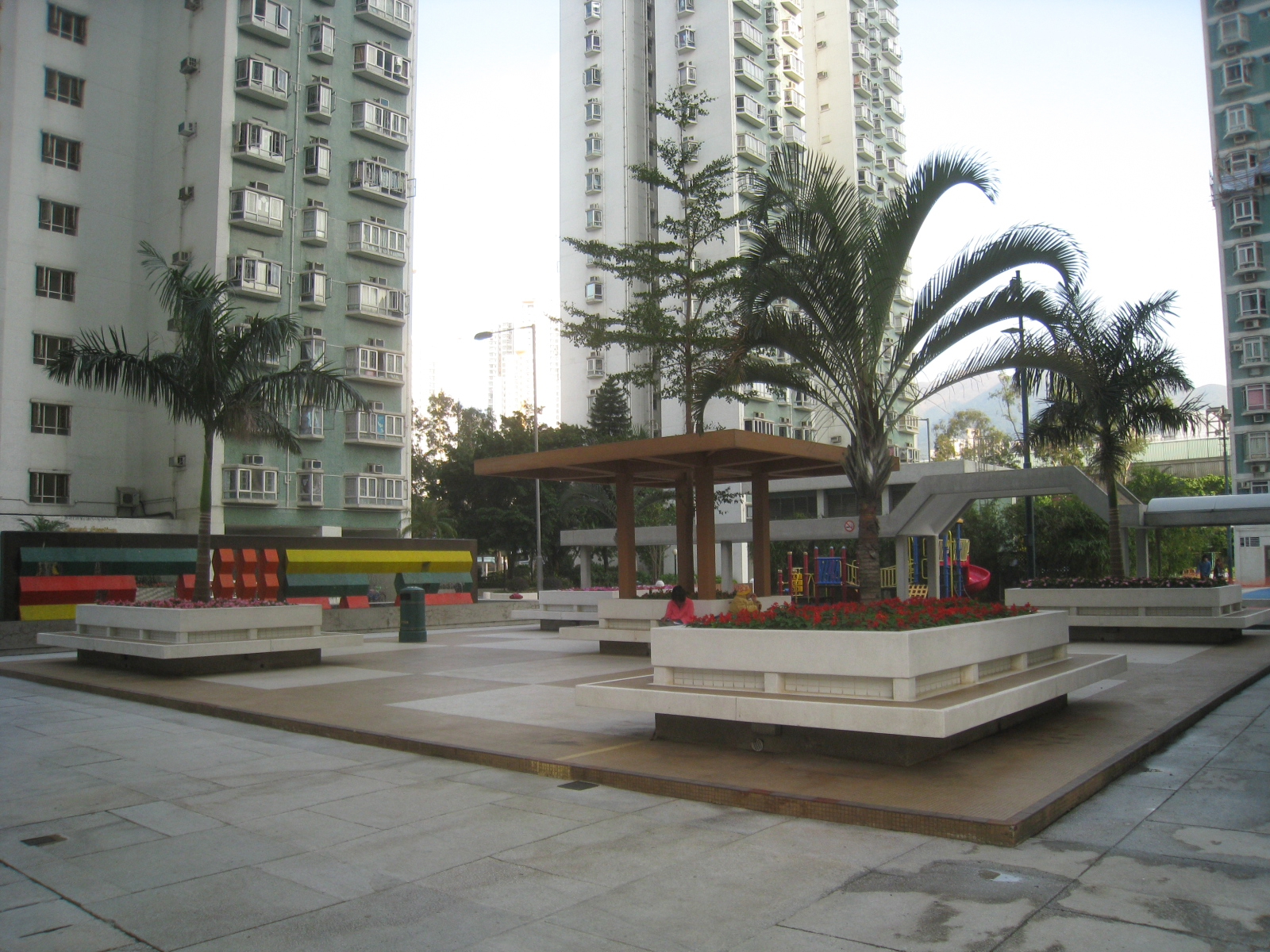 City One Shatin Garden